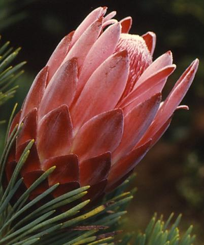 An image of the flower of Protea aristata, taken by Grant Hearn in the Kirstenbosch National Botanical Gardens, South Africa ca. 1982. Uploaded for the article 'Protea aristata'.